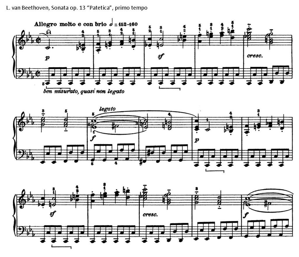 Beethoven, esempio di basso di Murky